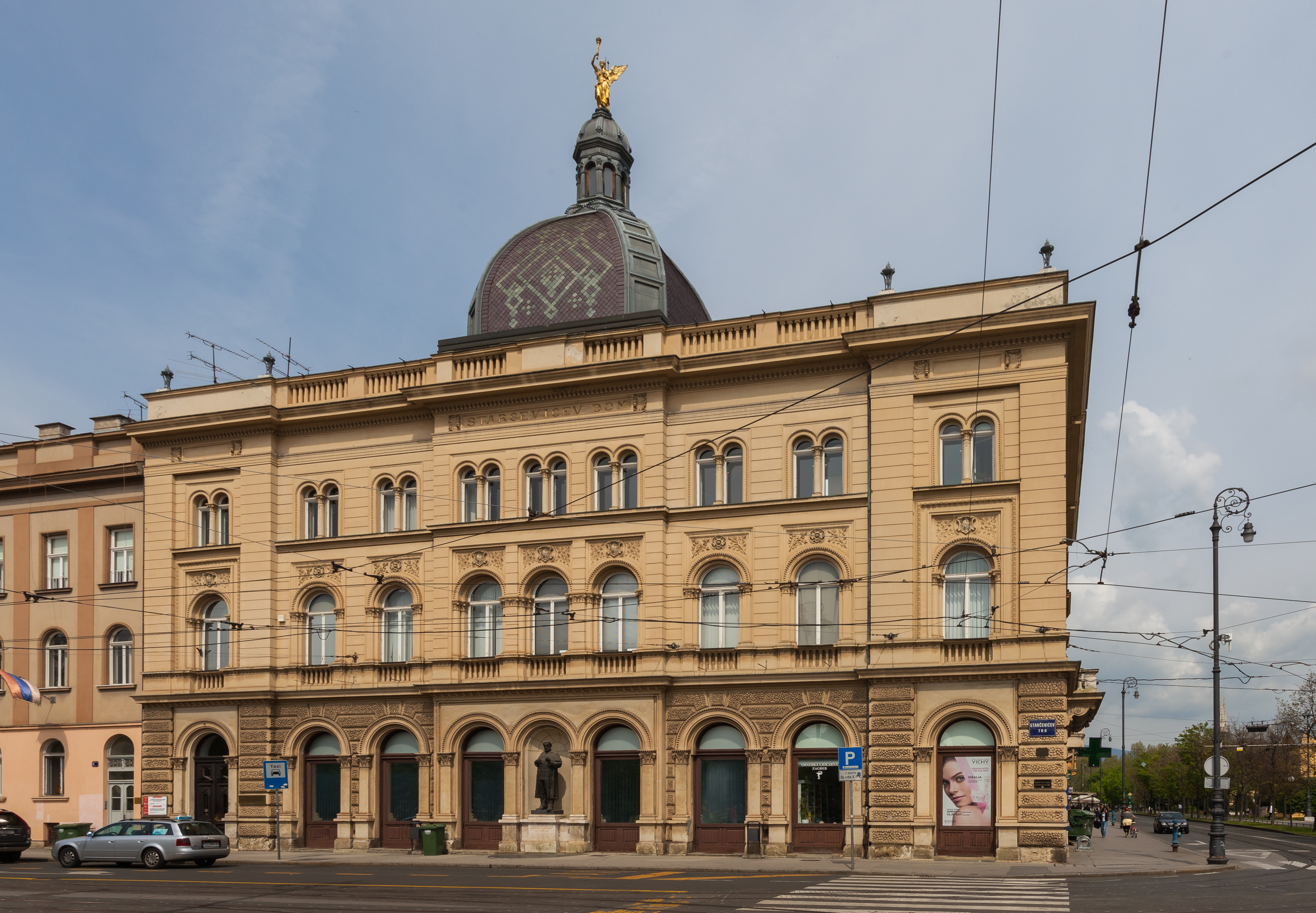 Library, Zagreb, Croatia